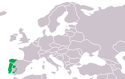 Distribution of Triturus boscai, based on Nöllert/Nöllert: "Die Amphibien Europas"